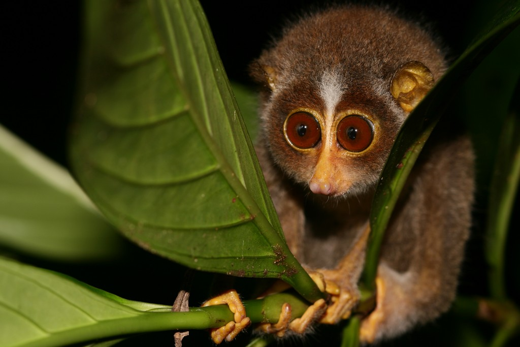 Sri Lankan Slender Loris